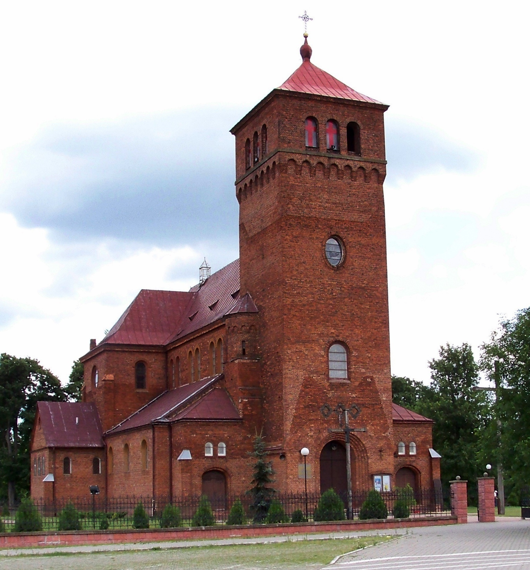 church, Wsola